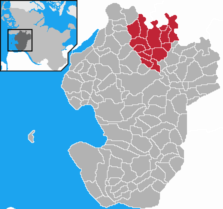 This map shows the area of the Amt Hennstedt in the district Dithmarschen, Schleswig-Holstein, Germany.